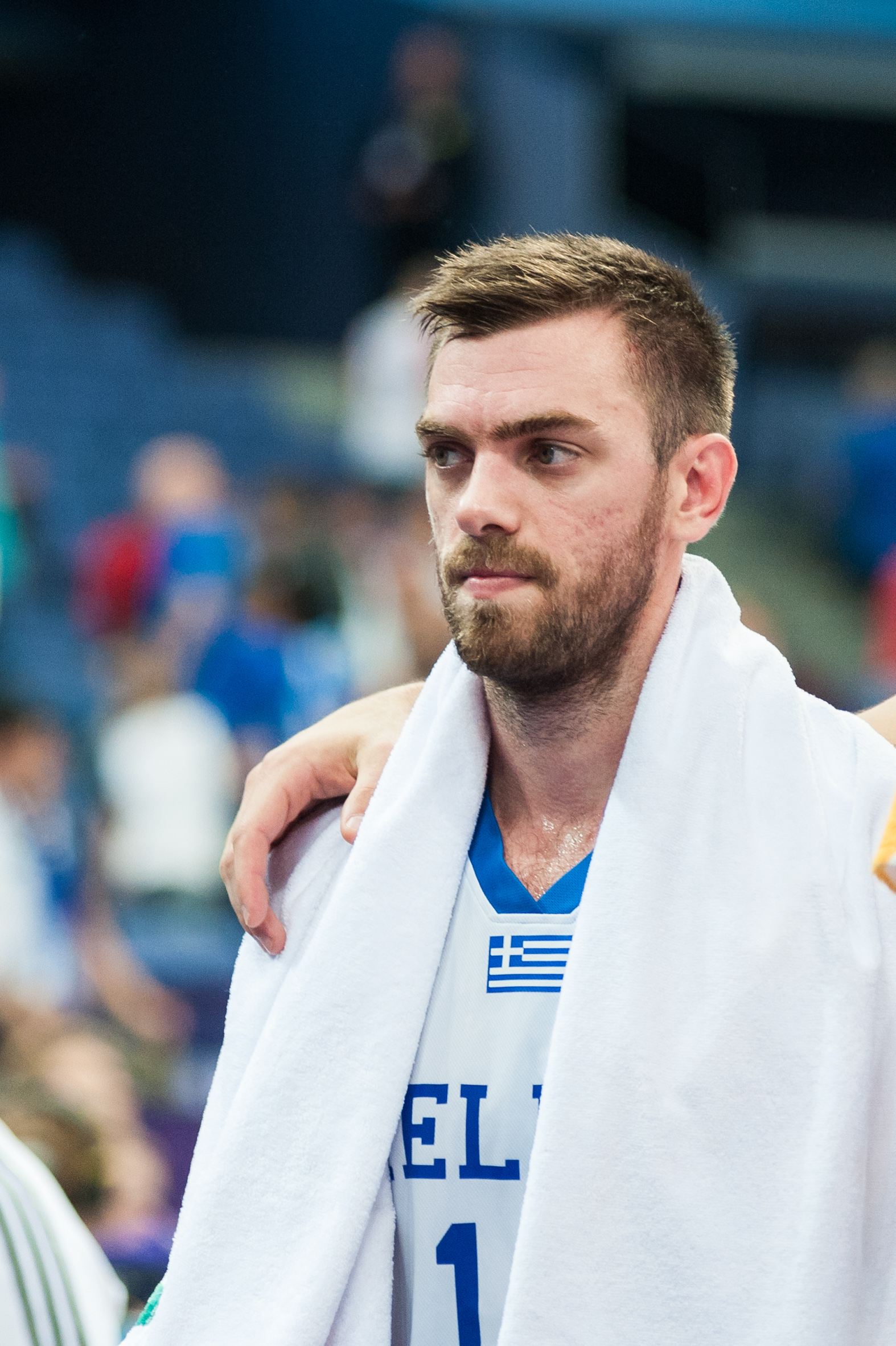 EuroBasket 2017 Group A game between Greece and France at Hartwall Arena in Helsinki, Finland.